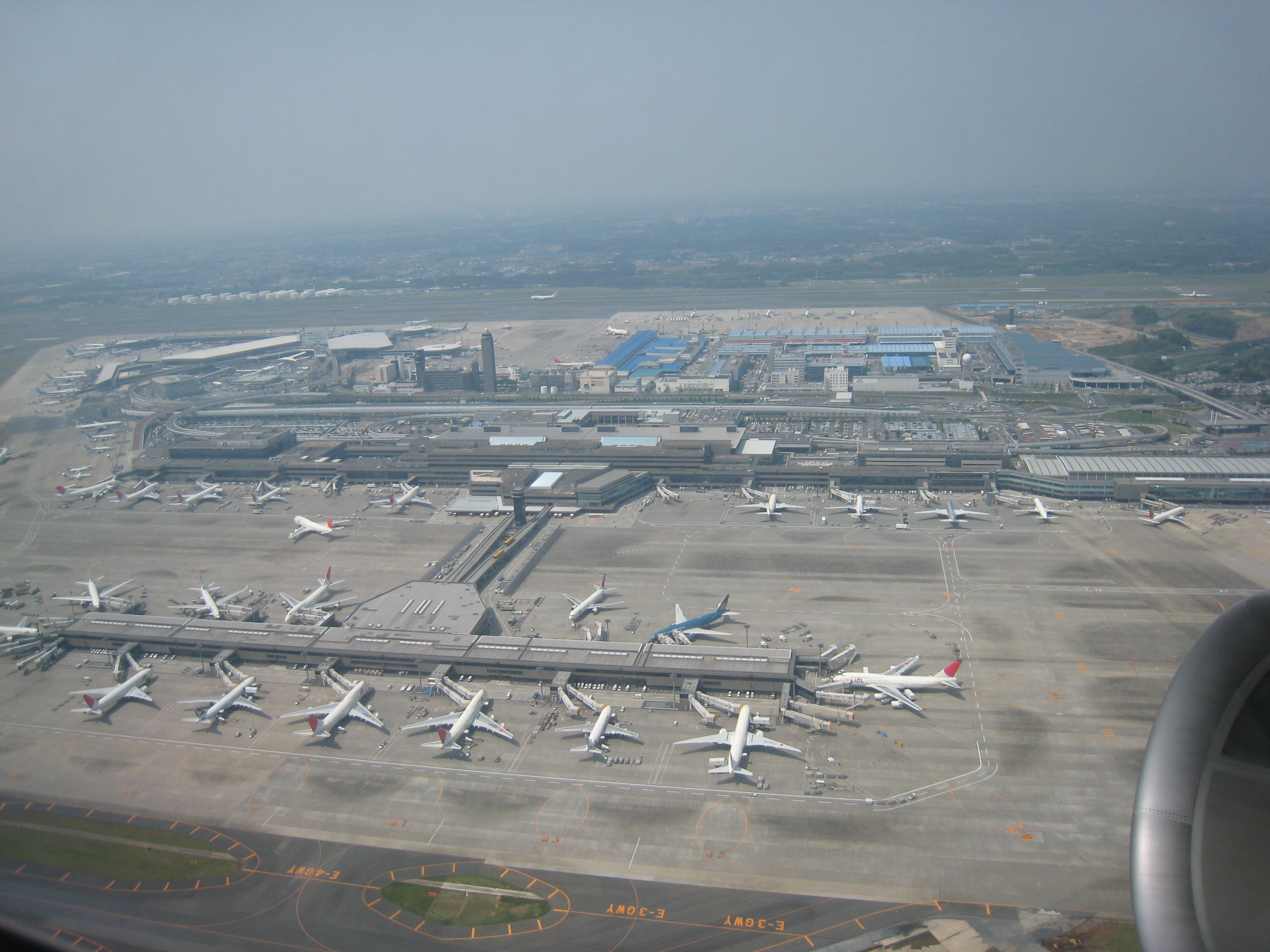 Narita International Air Port(成田空港 航空写真）, Chiba(Japan) from Airplane